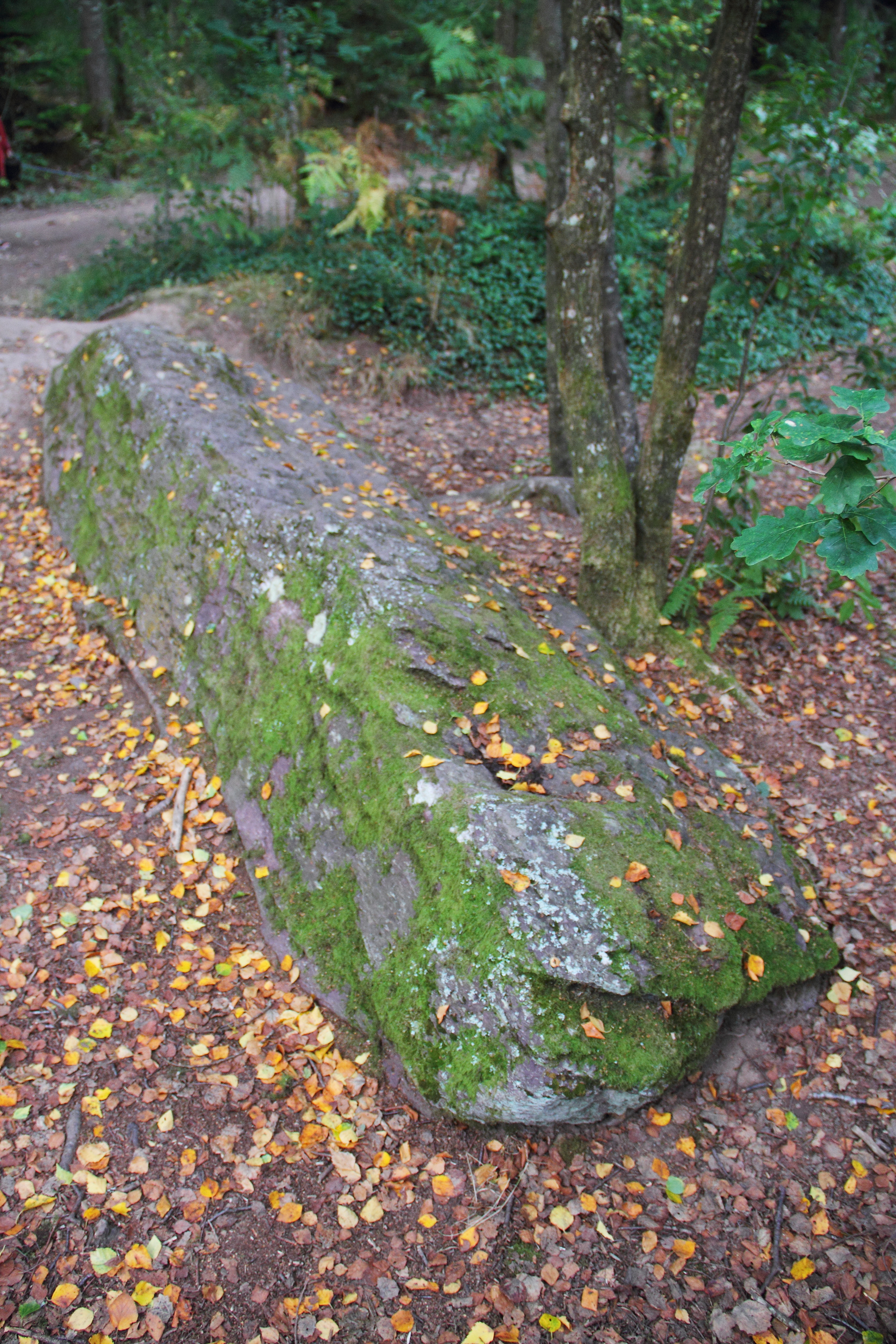 "The Grave of the Giants" is a semimegalithic site near Paimpont, Brittany. A few meters nearby lies this menhir.